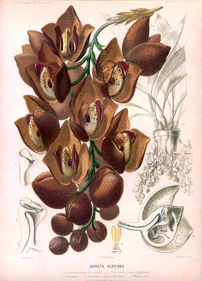 Acineta superba - Chromolithograph